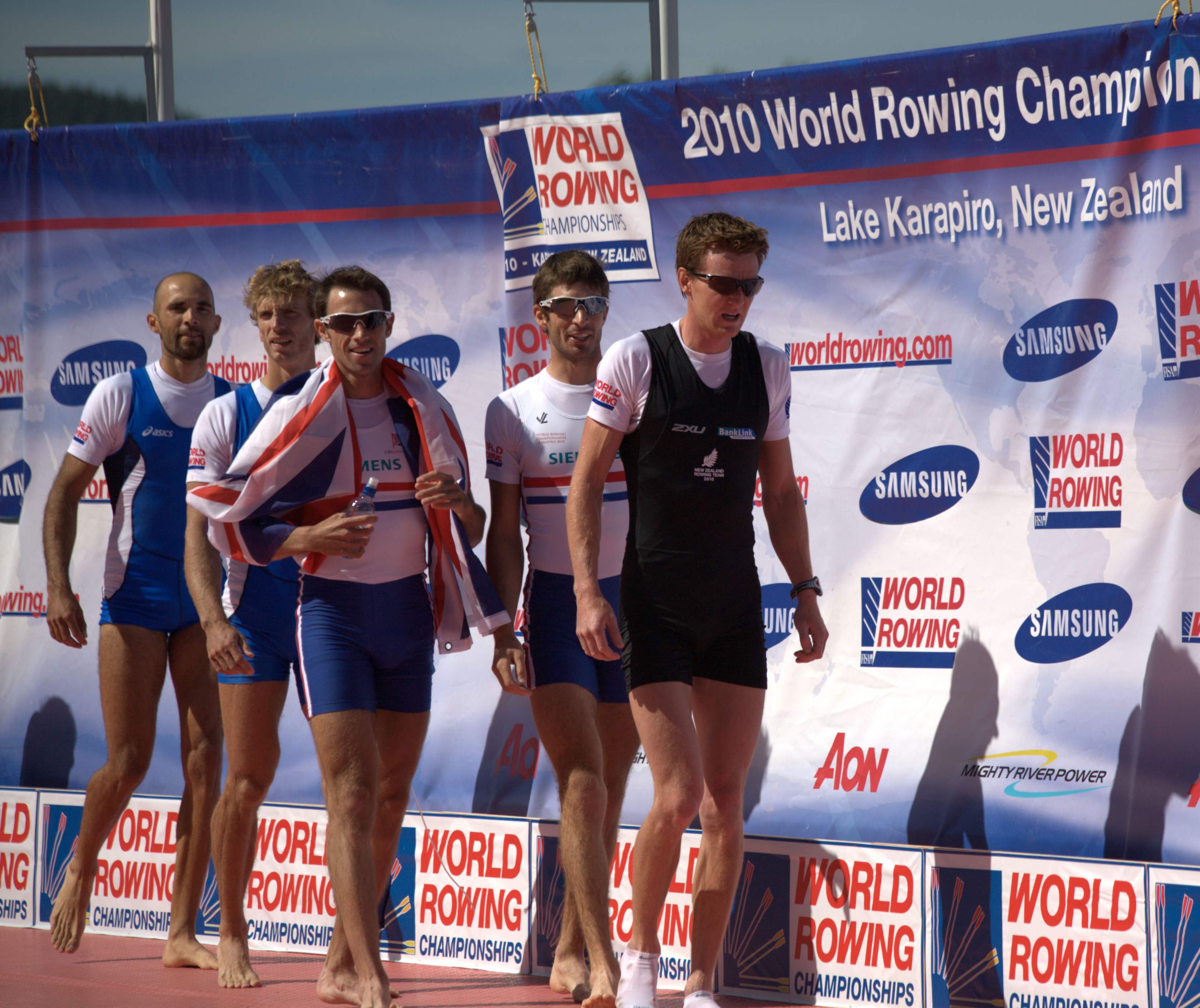 LM2x victory ceremony 2010 World Rowing Championships.